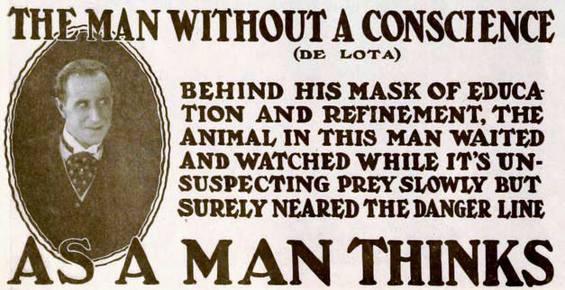 Advertisement for the American drama film As a Man Thinks (1919) with Warburton Gamble, on page 118 of the April 5, 1919 Moving Picture World. There was a small ad on subsequent pages of the magazine each with a character from the film.